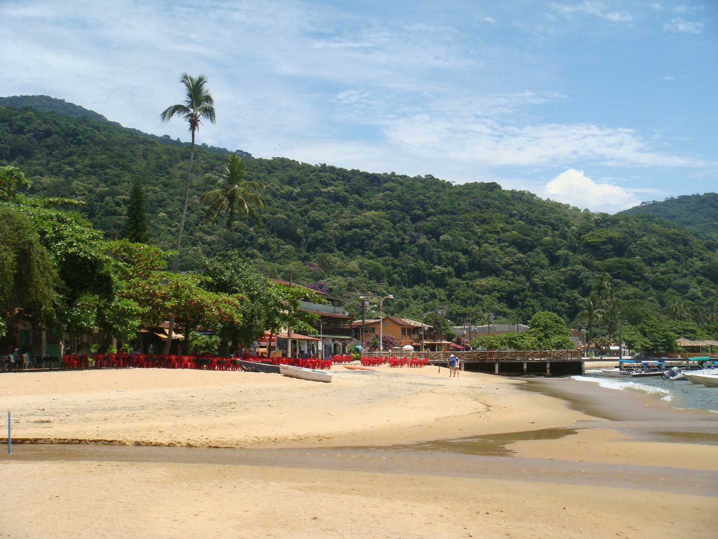 Beach near the centre of Vila do Abraão, Ilha Grande, Brazil